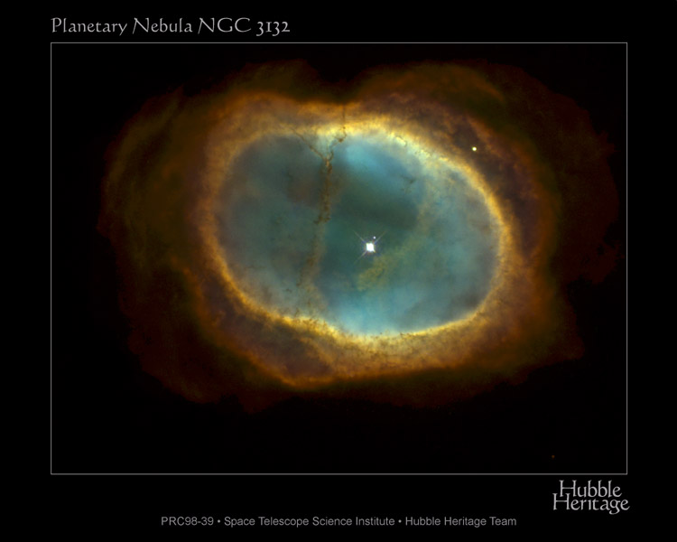 Planetary Nebula NGC 3132 in pseudocolors